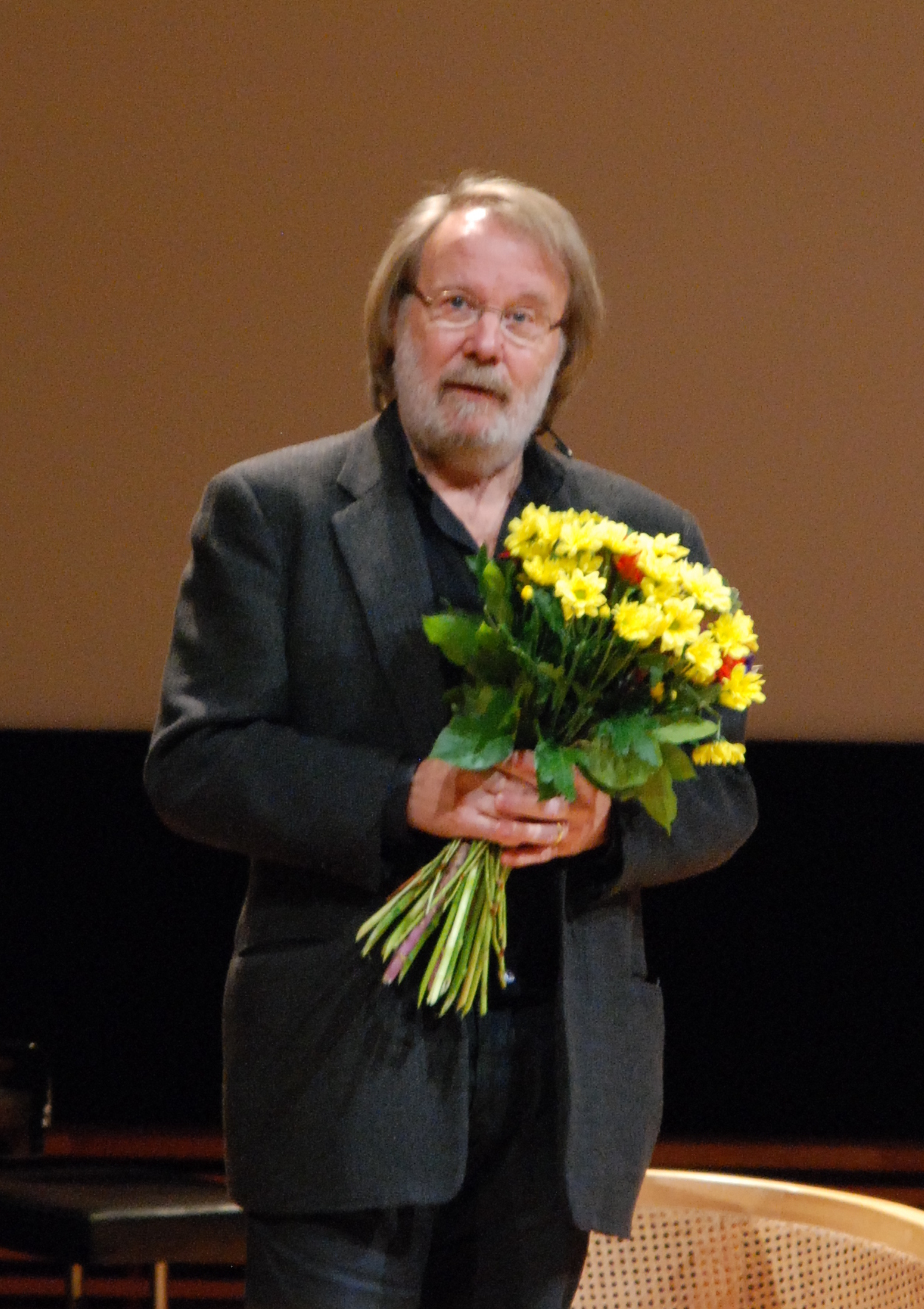 Benny Andersson is talking about his music and his compositions at the Aula Magna at Stockholm University where he is honorary doctor since September 26, 2008